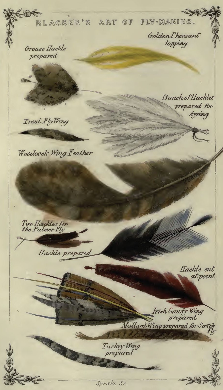 Plate 9 - The Plate of Feathers from Blacker's Art of Fly Making, William Blacker, 1855